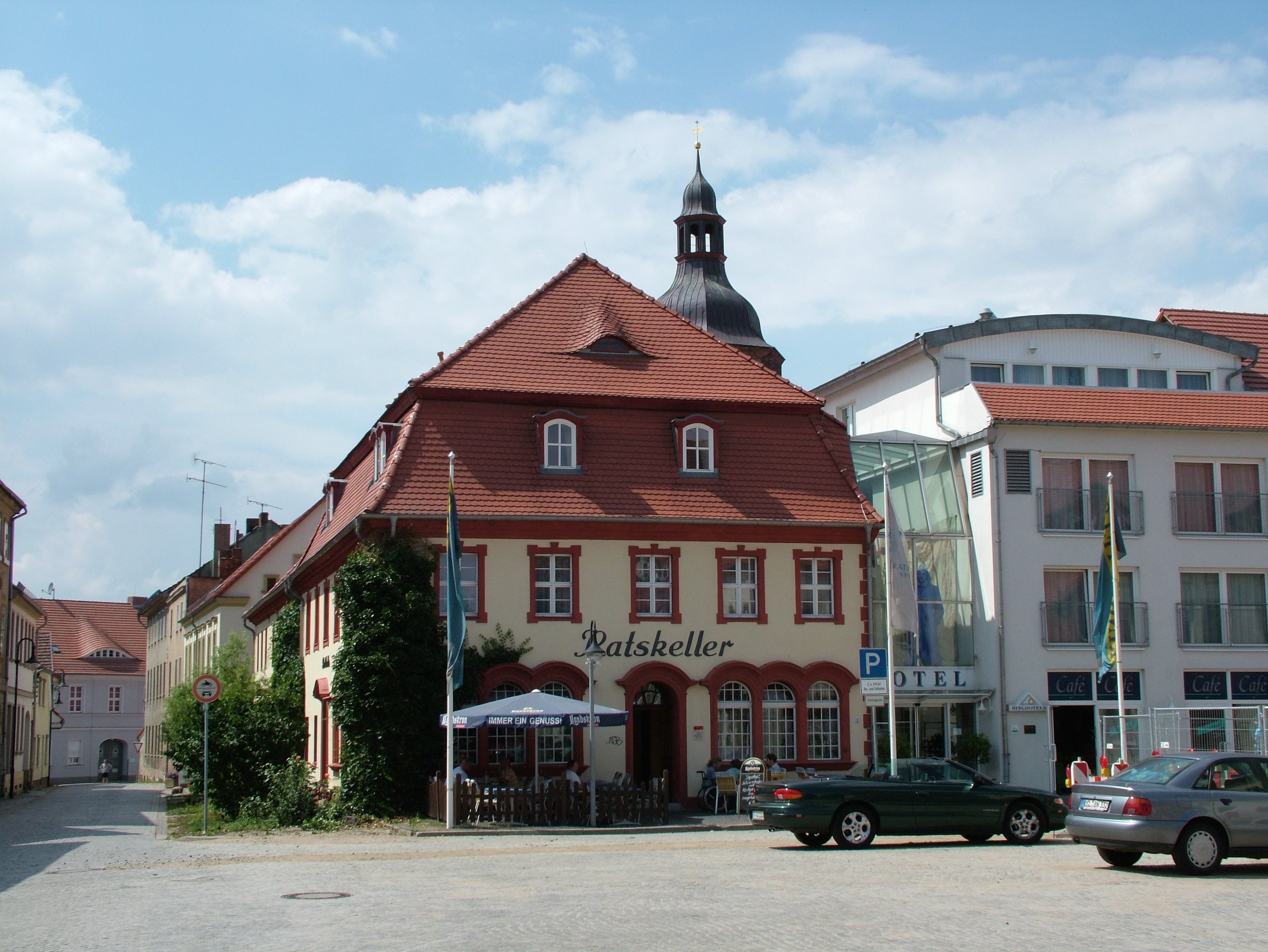 Vetschau / Germany